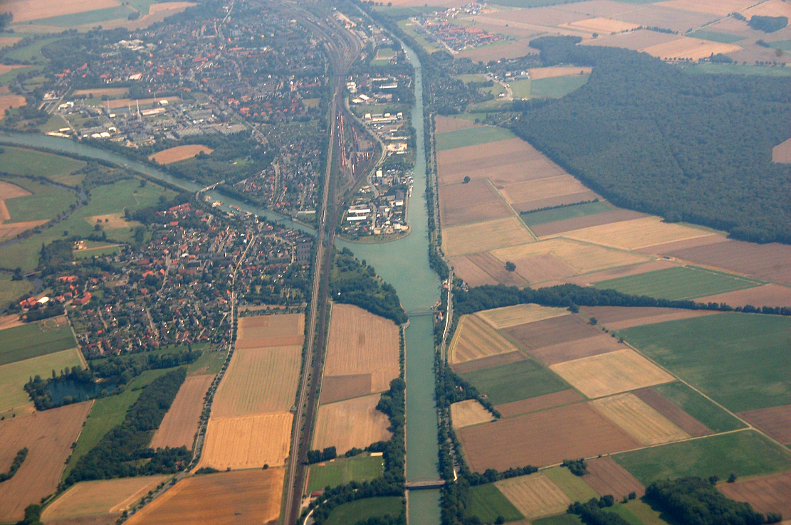 Aerial photographs